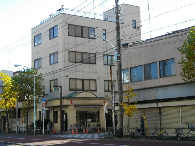 Nihondzutsumi Koban